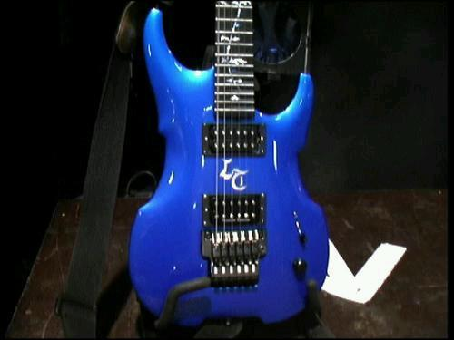 Luca Turilli Custom Guitar made by the French luthier Cristopher Capelli